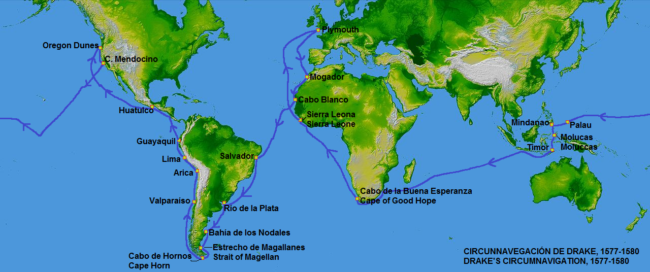 Map that shows the circumnavigation travel of Francis Drake between 1577 and 1580